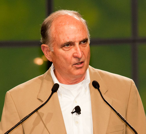 David Orr, well-known author, professor, and environmental advocate, speaks to General Synod on the need to continue environmental activism.